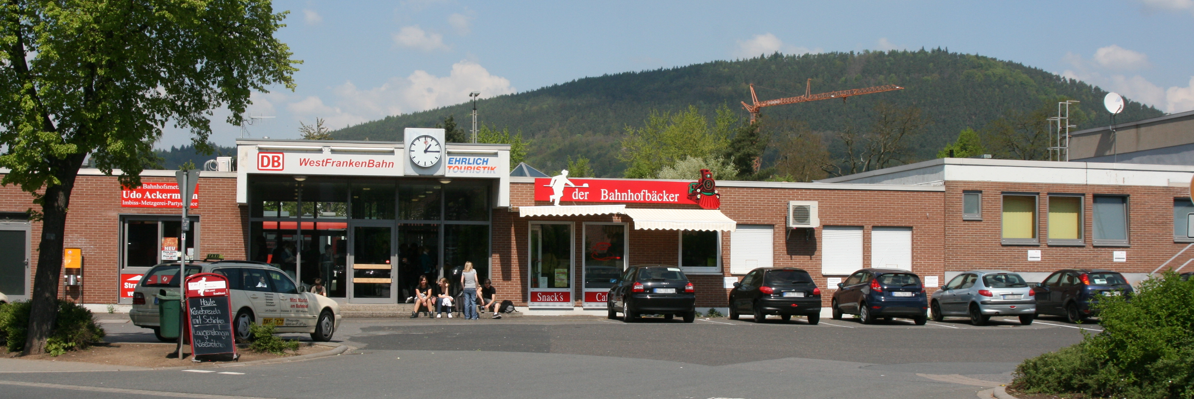 The railway station of Miltenberg, opened in 1906, Building opened in 1977